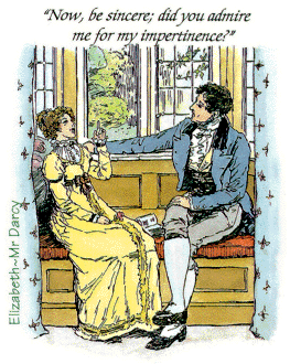 C. E. Brock illustration for the 1895 edition of Jane Austen's novel Pride and Prejudice